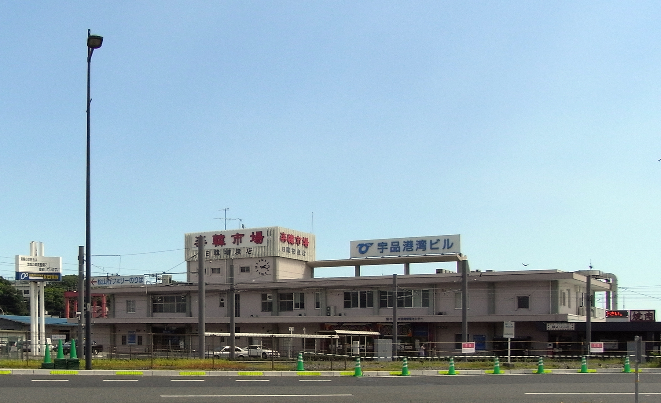 East Passenger Terminal, Port of Hiroshima.